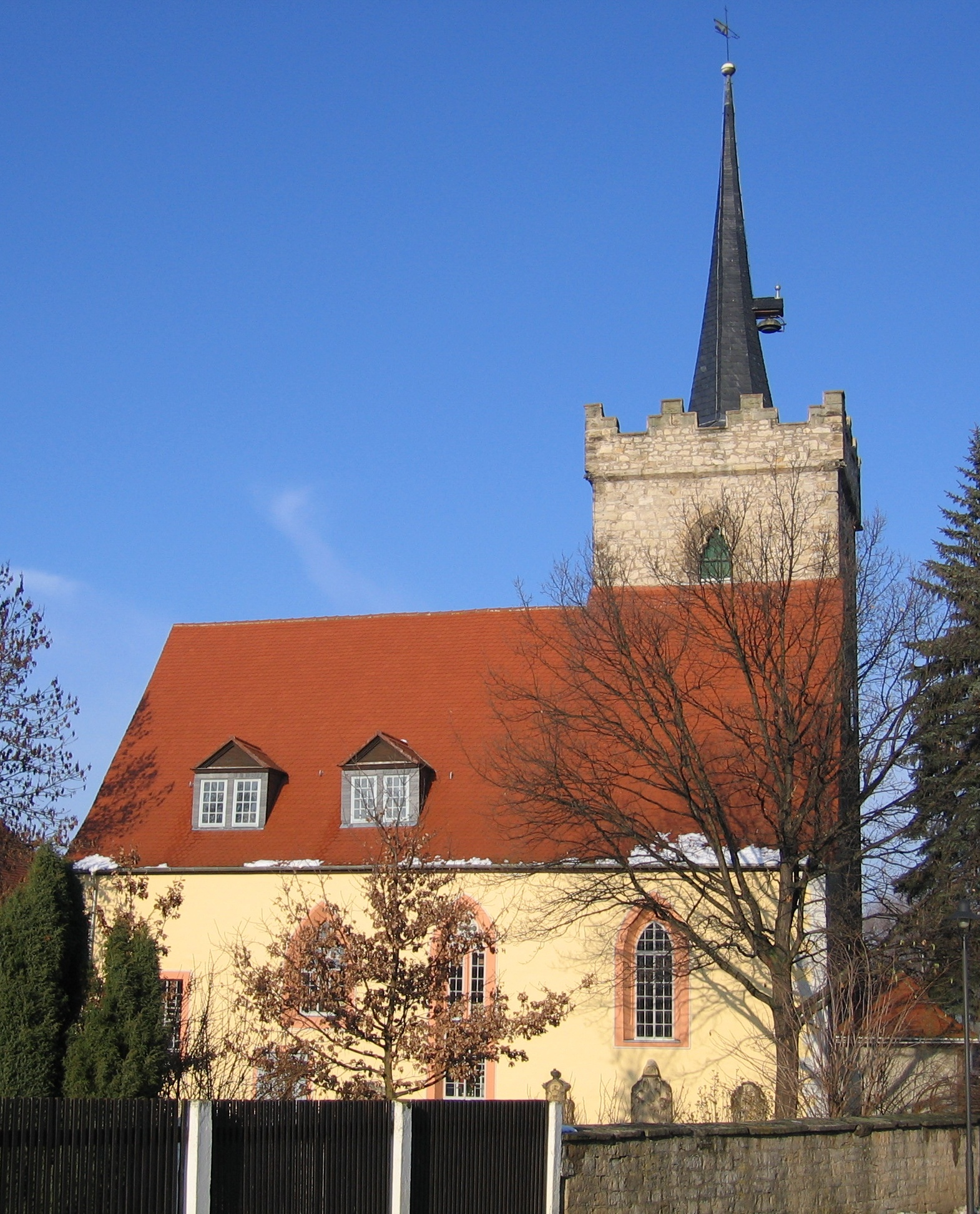 Niederzimmern church, Thuringia, Germany, Dorfkirche von Niederzimmern/Thüringen